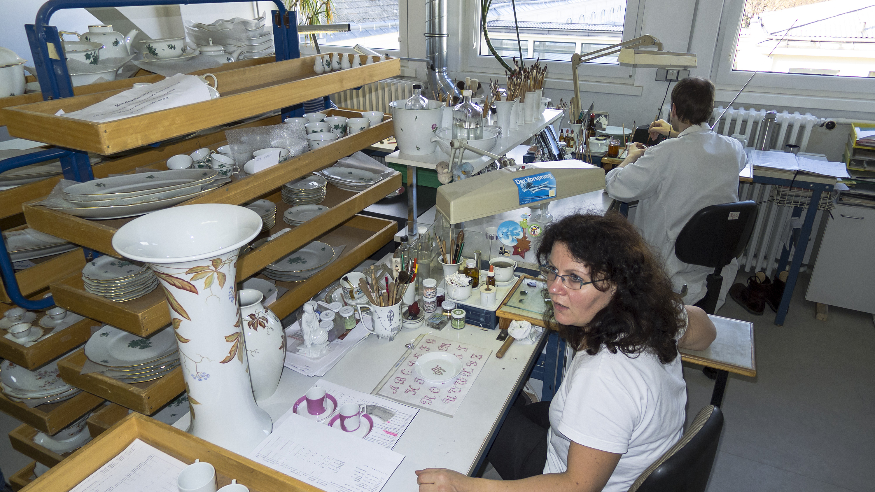 Porclain factory Porzellanmanufaktur Augarten in Vienna 2